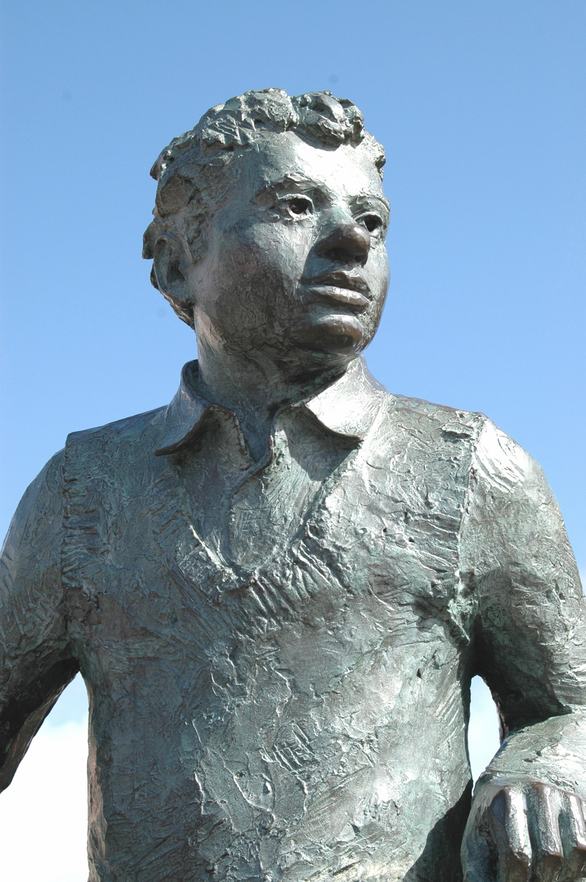 Statue of Dylan Thomas, Maritime Quarter, Swansea.